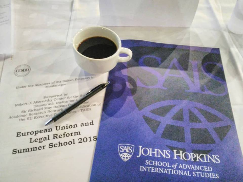 European Union & Legal Reform Summer School, a weeklong post-graduate course organized by the CCSDD in cooperation with the Institute of Social Sciences Belgrade.